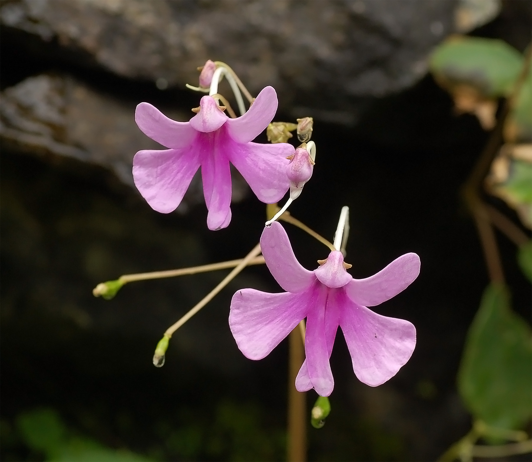 Impatiens scapiflora is found in many parts of Southern India, this flower is often confused with Impatiens acaulis, which is also common in Southern India. But the two species are easily distinguished by their flower. In I.scapilflora the lower petal is deeply bilobed, whereas in I.acauils they are single lobed.